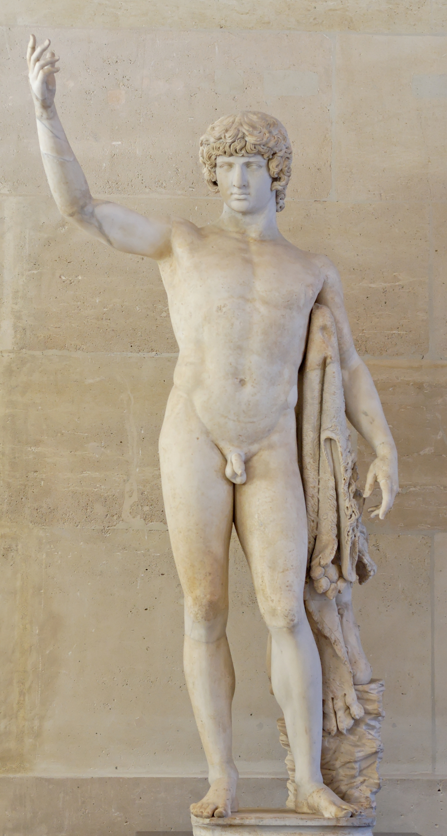 So-called “Braschi Antinous”, also known (wrongly) as Albani Antinous. The statue is composed of an antique head of Antinous and a antique body of Heracles. Marble, Italy.